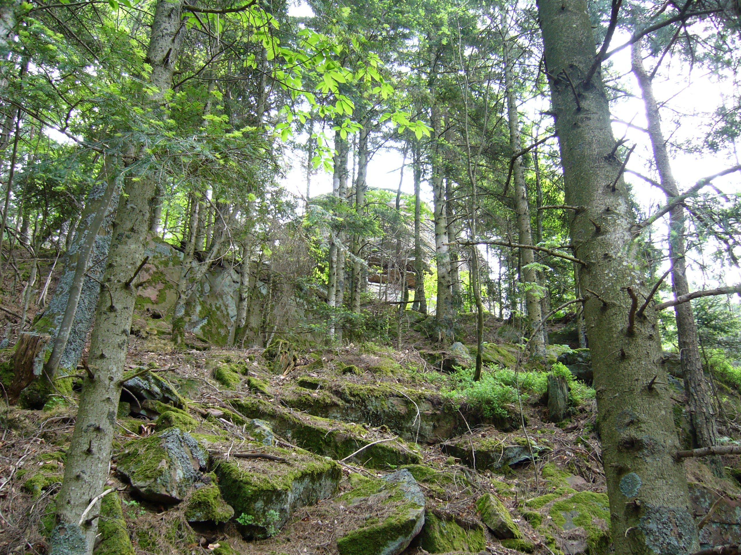 Chalmont, Vosges mountains. Trees are mostly Abies alba